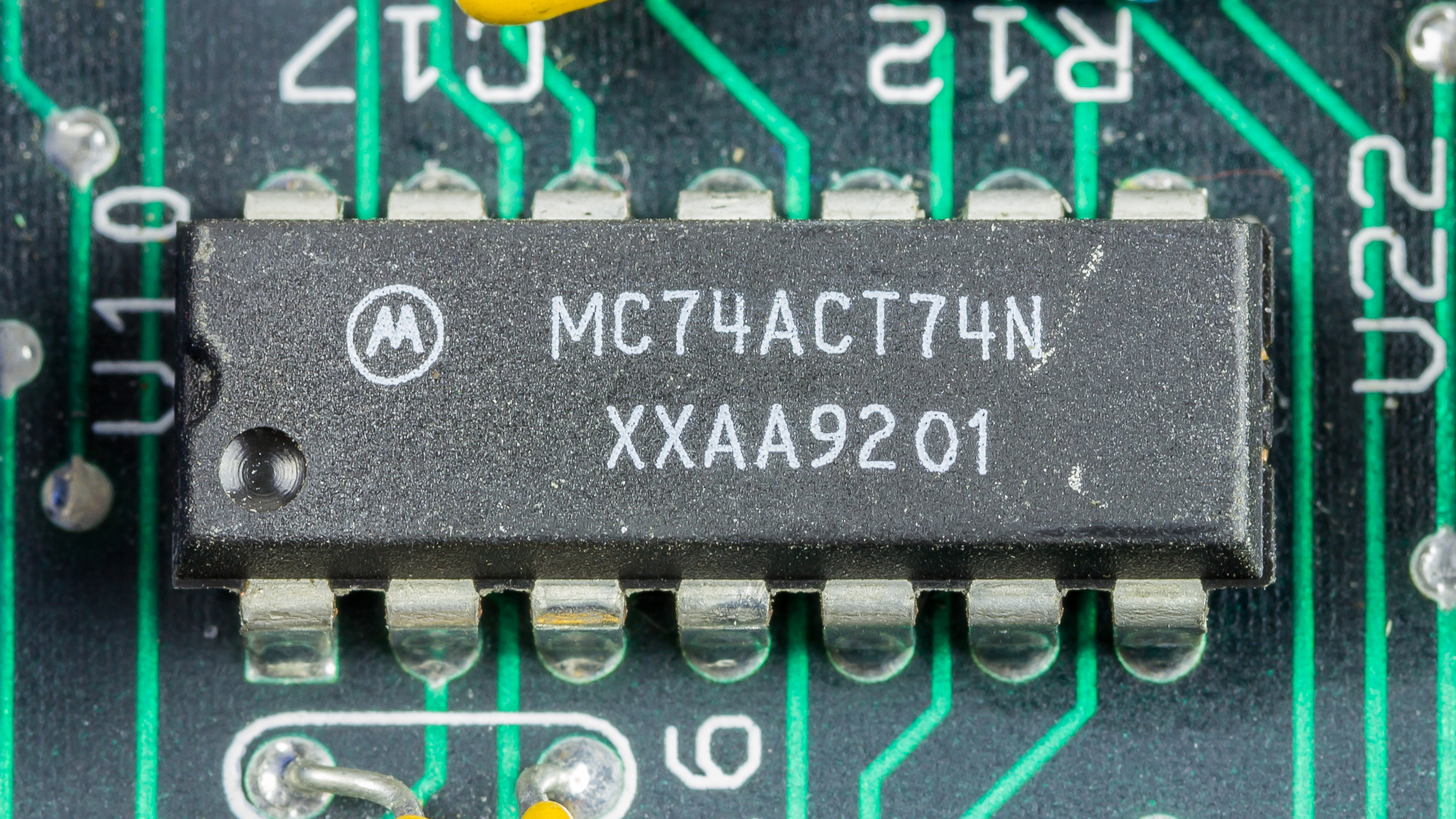 Basic Measuring Instruments - Math Processor 83002190 - Motorola MC74ACT74N Production date: 1992 in calendar week 01 - Dual D-Type positive edge-triggered flip-flop